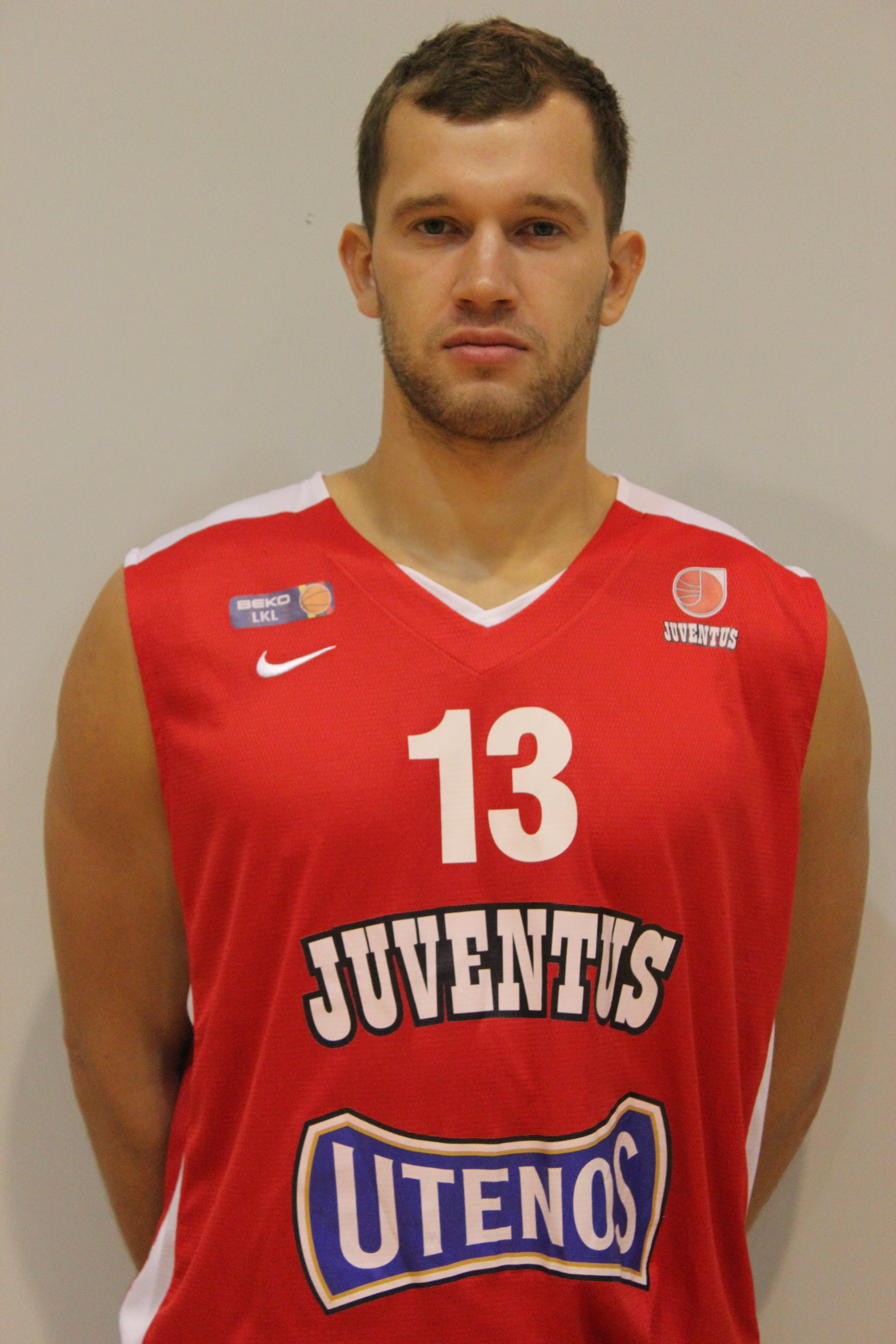 Photo of BC Juventus player Simas Buterlevičius during the 2014-15 season.